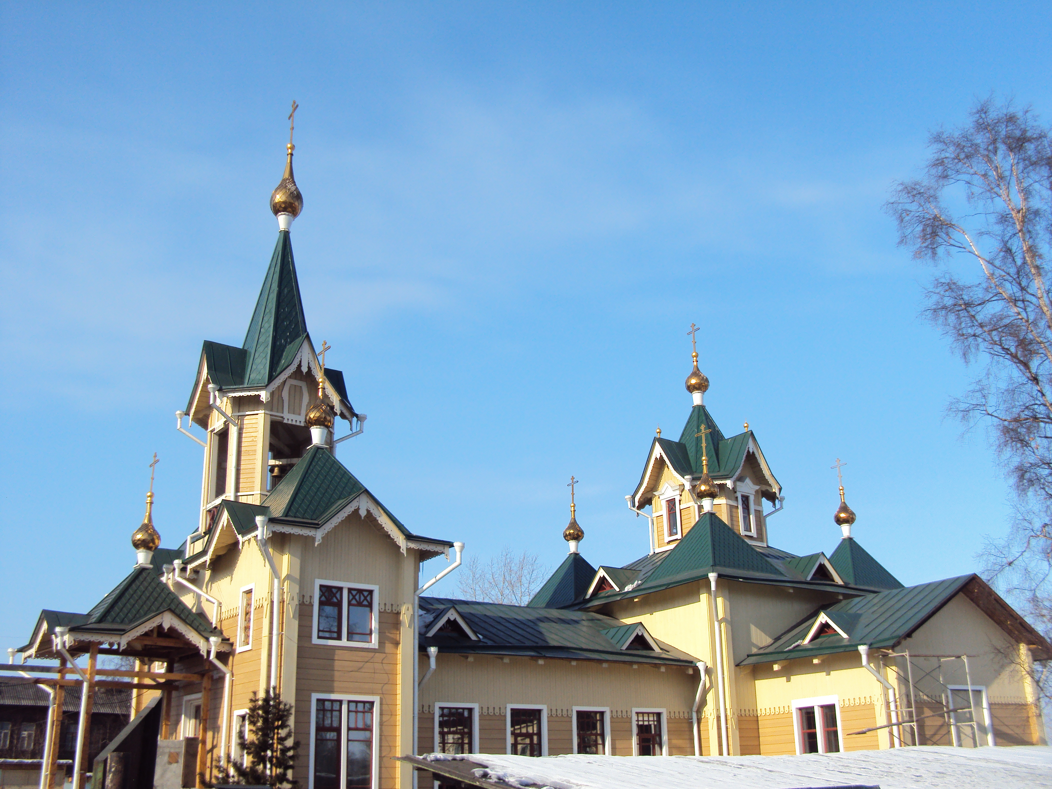 Отреставрированная церковь города Слюдянки